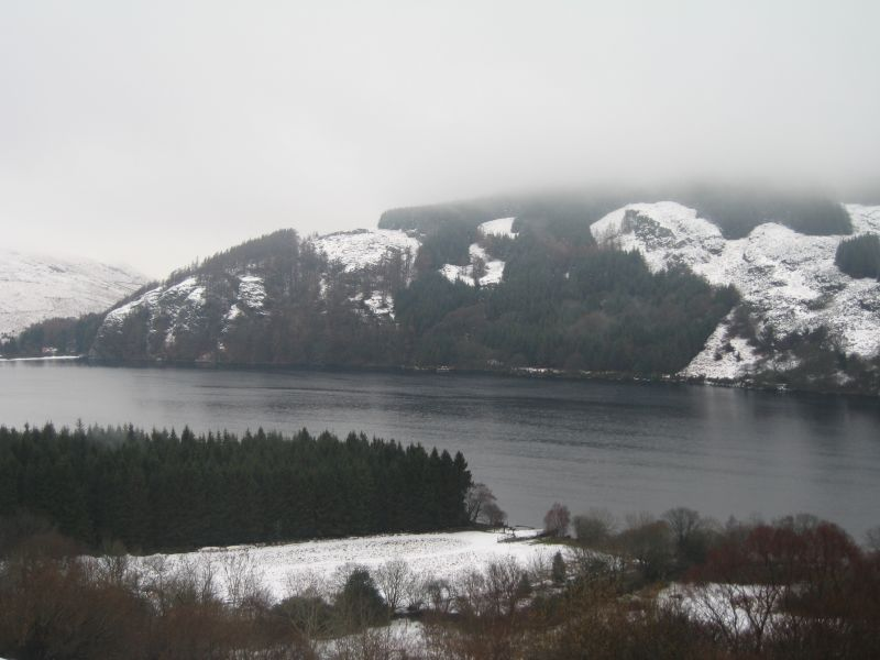 Lough Dan